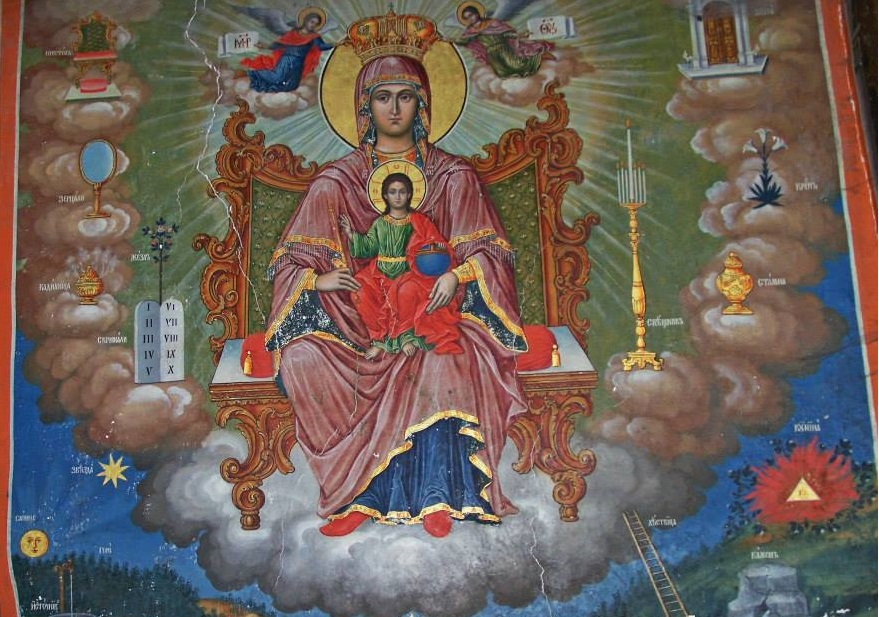 Assumption_of_Mary_Church_Mary_Queen_of_Heaven_Fresco